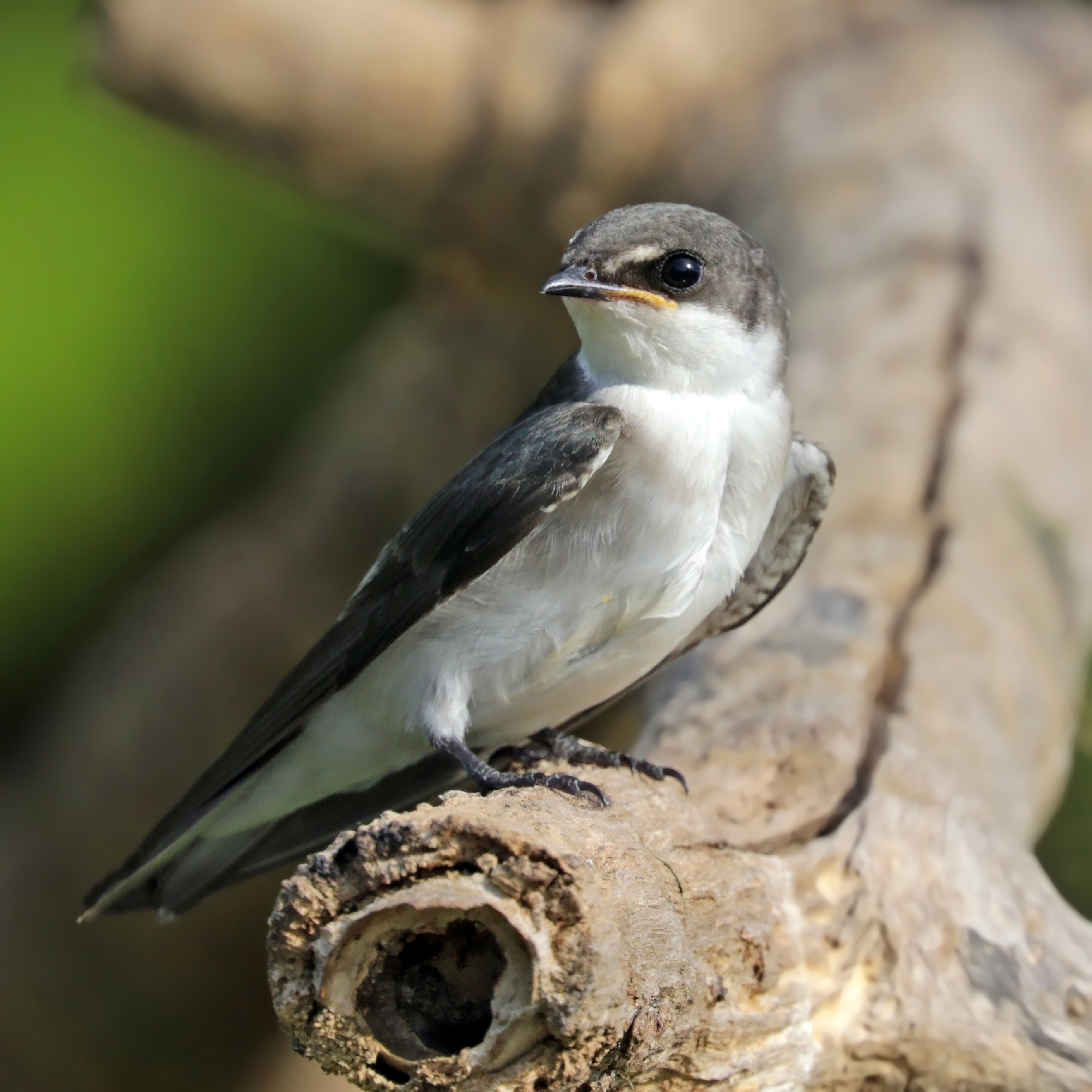 Mangrove swallow (Tachycineta albilinea) immature, Chagres River, Panama